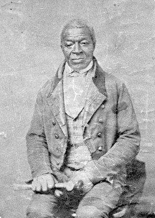 Portrait of Gilbert Hunt, blacksmith and hero of the Richmond Theatre fire